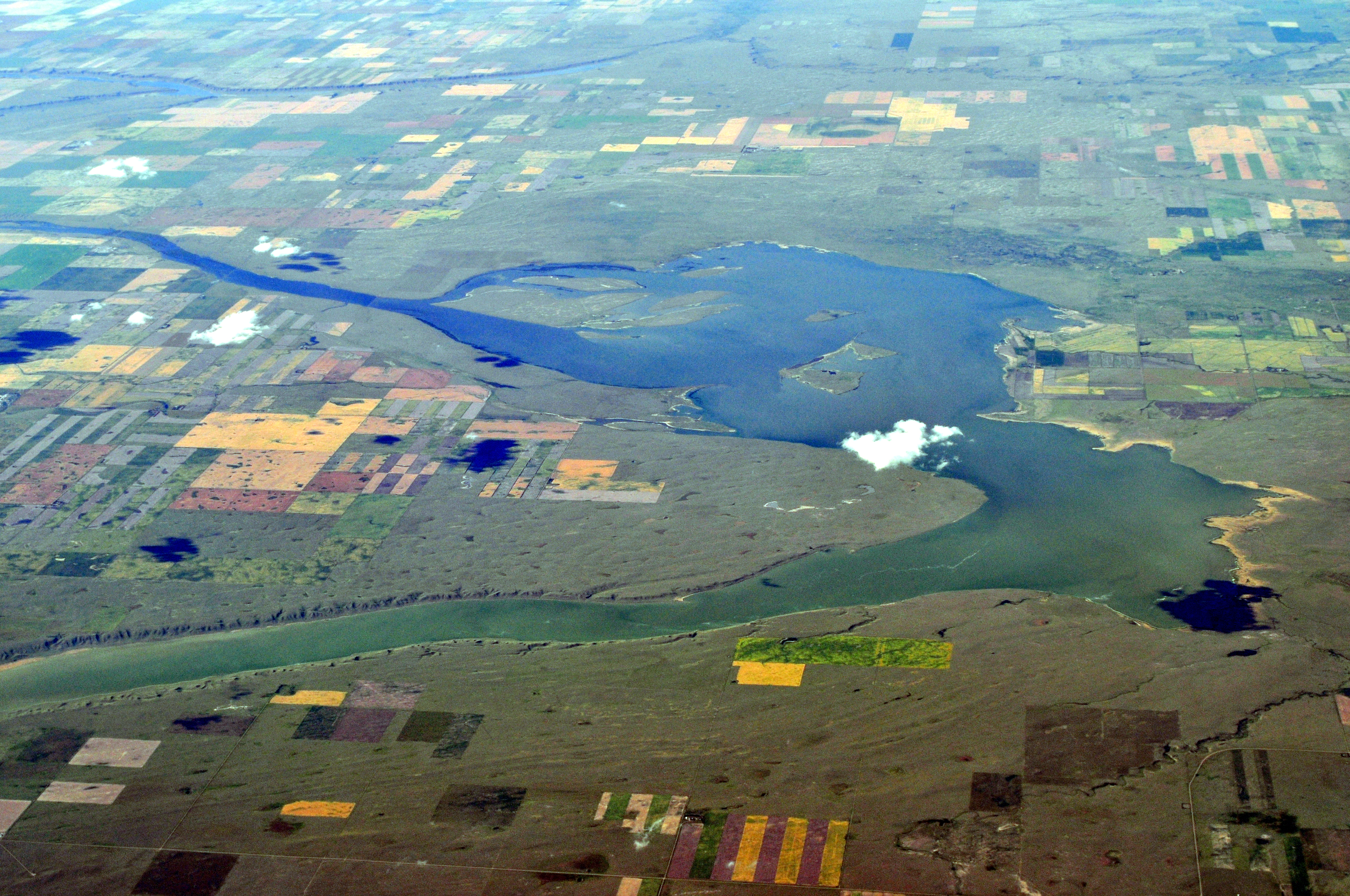 Aerial view of Pakowki Lake, Alberta, Canada, viewed from the south.